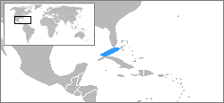 Created using GraphicConverter from User:Vardion's Image:BlankMap-World-v6.png for the closeup and Image:BlankMap-World.png for the mini-map.